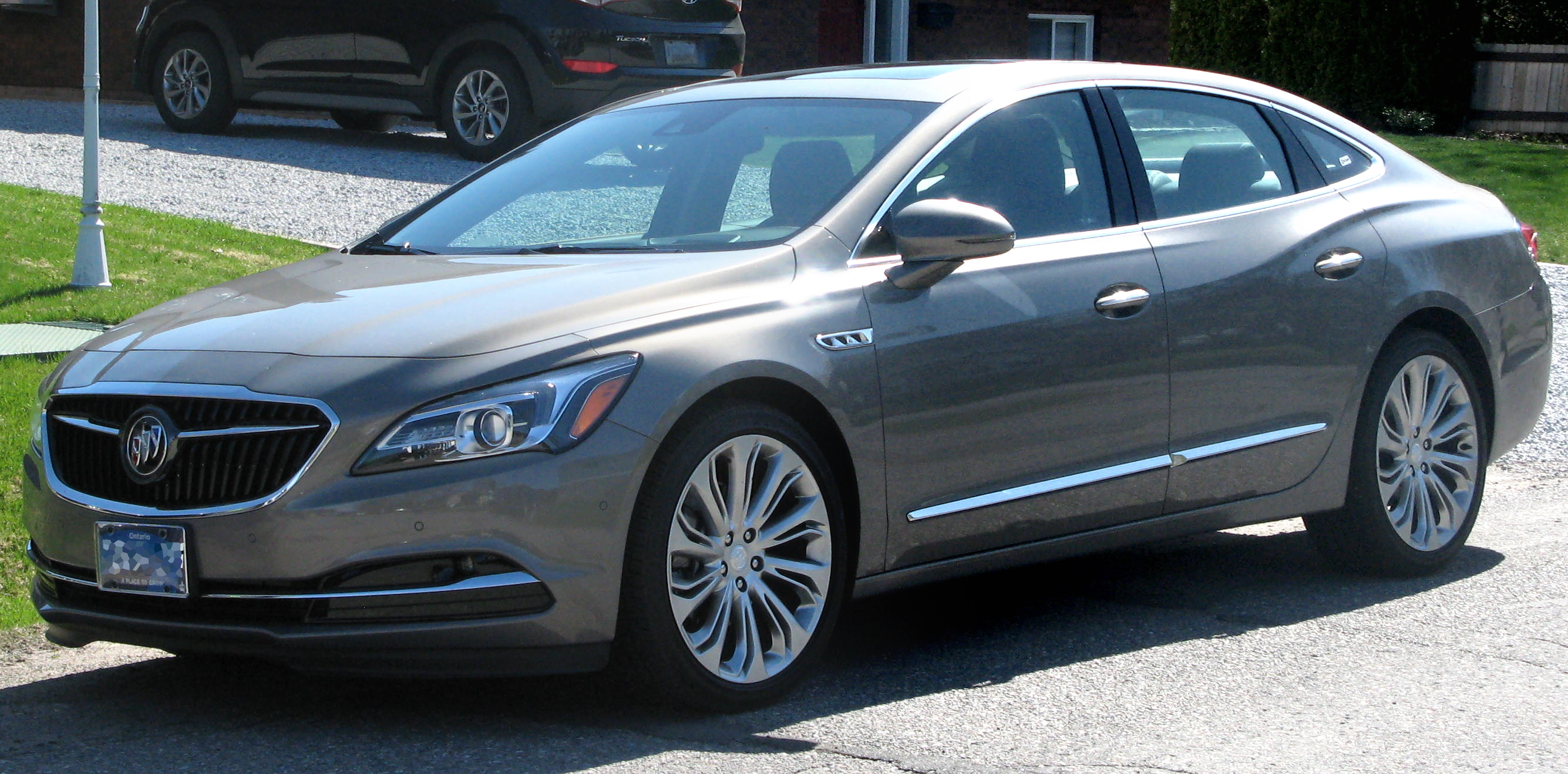 2018 Buick LaCrosse Premium AWD photographed in Sault Ste. Marie, Ontario, Canada